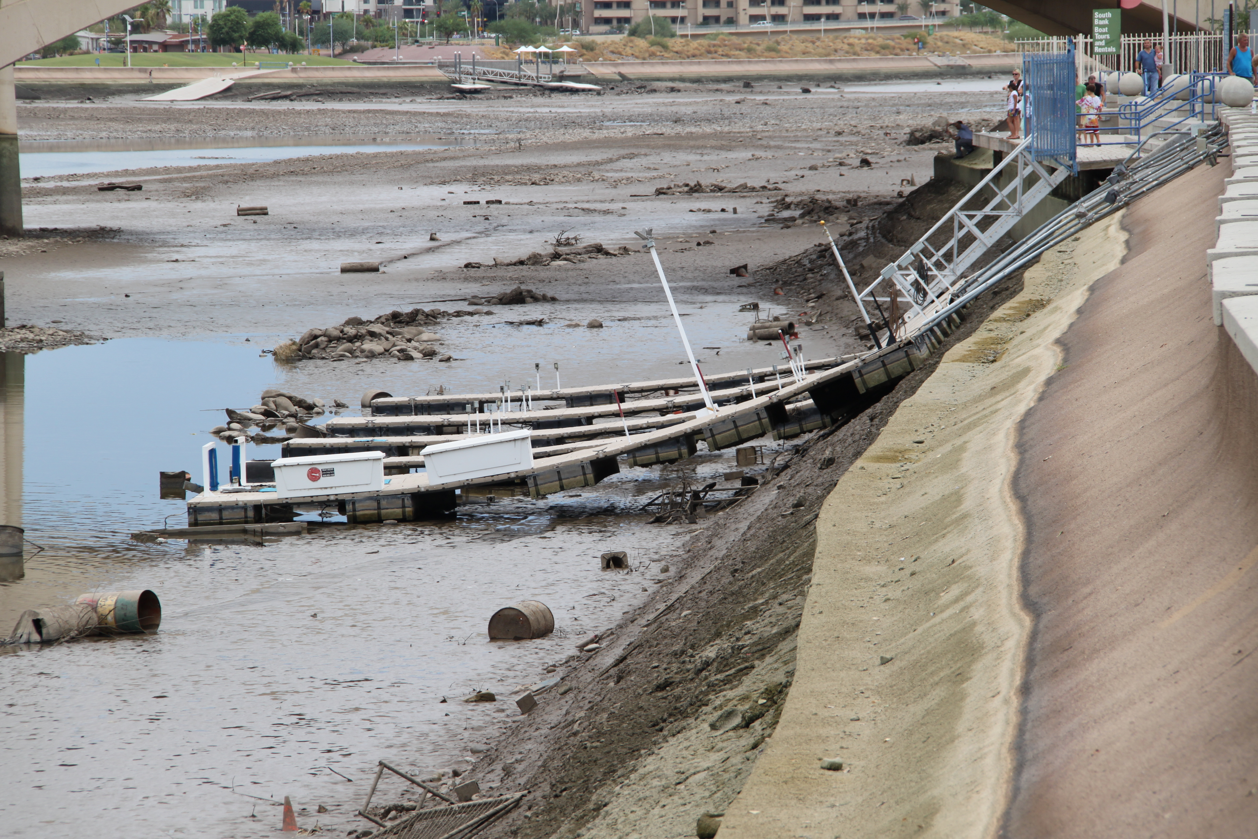 The Salt River's dry bed after the west dam holding back the waters in Tempe Town Lake collapsed overnight, draining the lake into the river. The image shows the debris and residue under the area that the lake used to occupy.